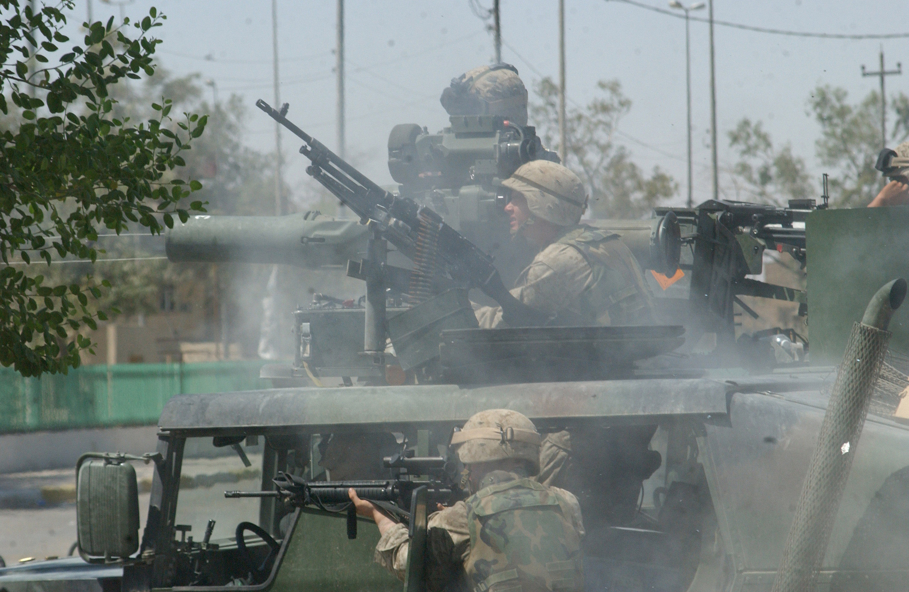 U.S. Marines from the 11th Marine Expeditionary Unit fight against Medhi Army militia members in the holy Shiite city of Najaf, Iraq, on Aug. 5, 2004.